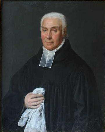 Portriat of Diedrich Hermann Biederstedt. Property of Dom St. Nikolai, Greifswald